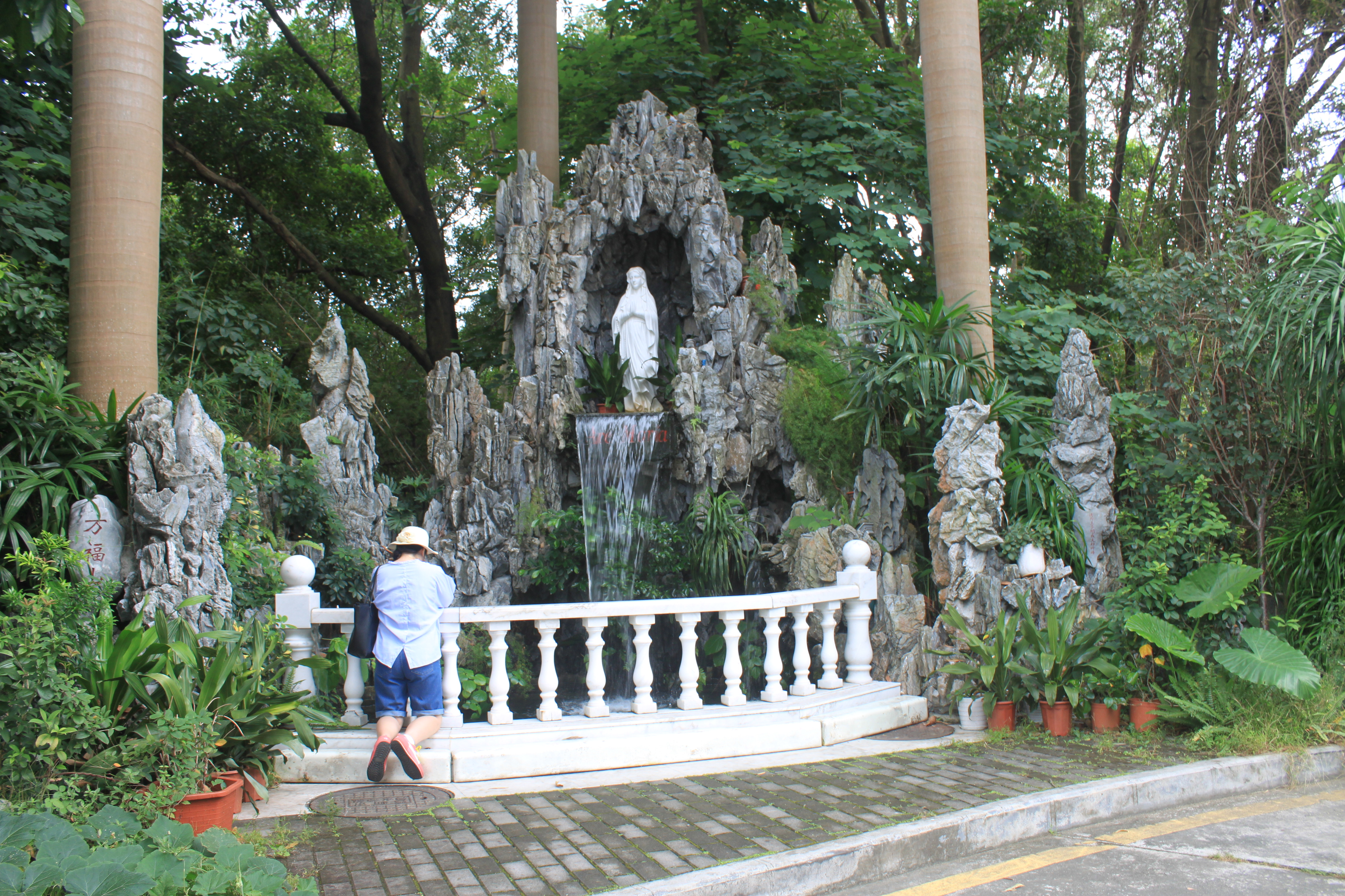 Statue of Virgin Mary at Shenzhen St. Anthony's Catholic Church. Shenzhen St. Anthony's Catholic Church is a Roman Catholic church located along Nonglin Road, Futian District, Shenzhen, Guangdong, China.